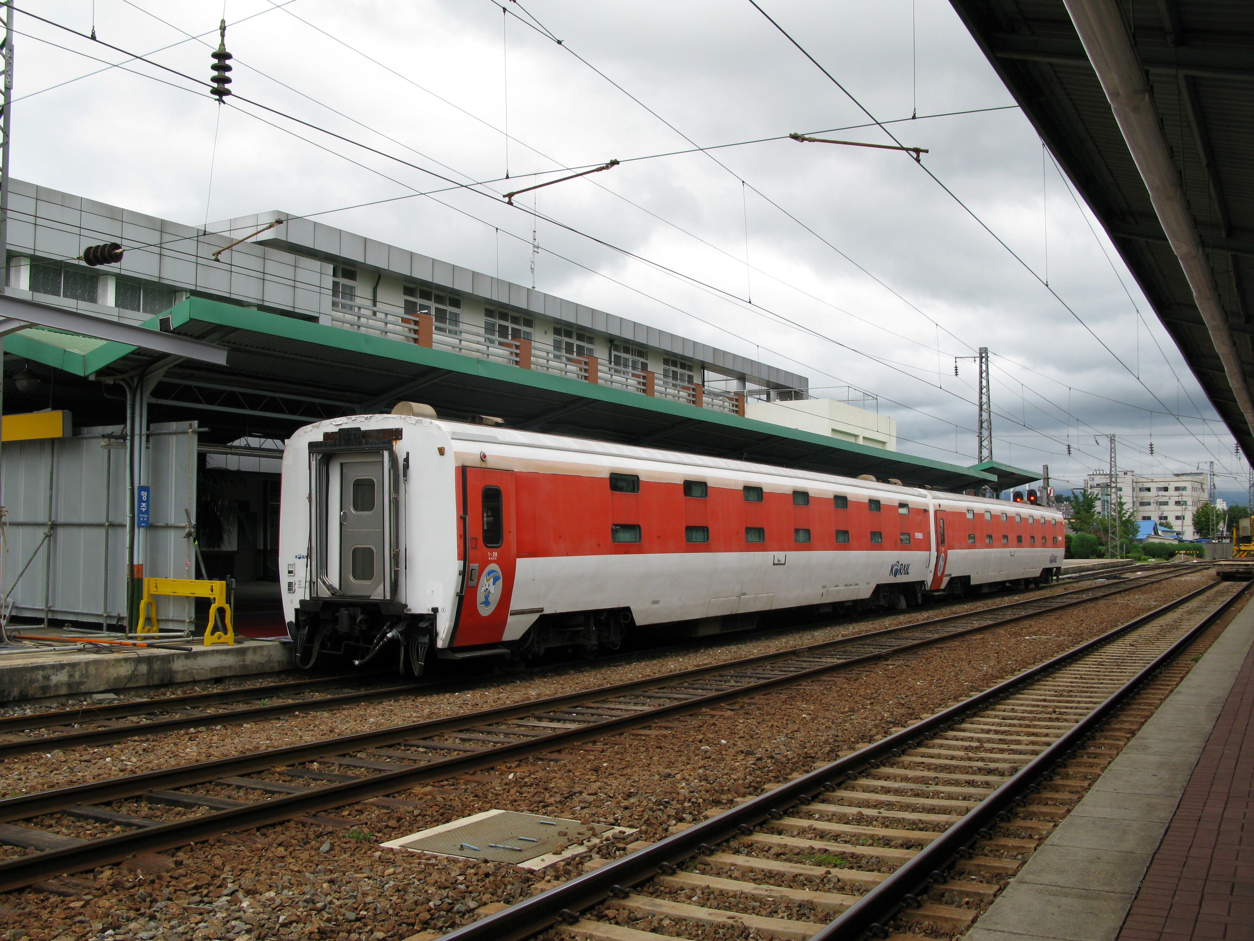 Mugunghwa-ho Sleeping Car